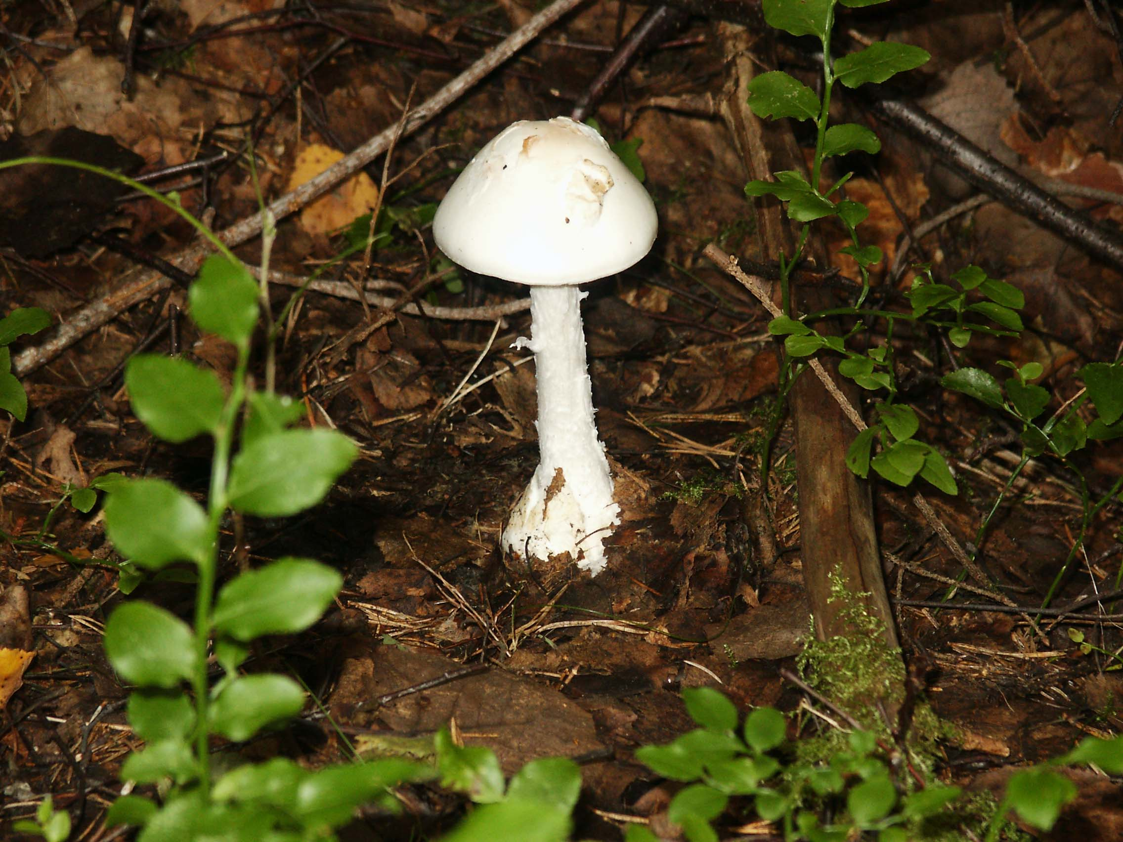 Original summary: "Picture taken by me in autumn -03 near my family home in Ludvika, Sweden. Amanita virosa, aka "Destroying angel"."